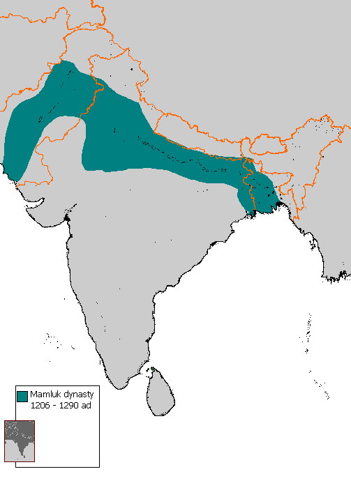 Mamluk Sultanate (Delhi) (1206-1290) Update, 7 May 2020: boundaries fixed in accordance with Schwartzberg, Joseph E. A Historical Atlas of South Asia (University of Minnesota, 1992), XIV.3